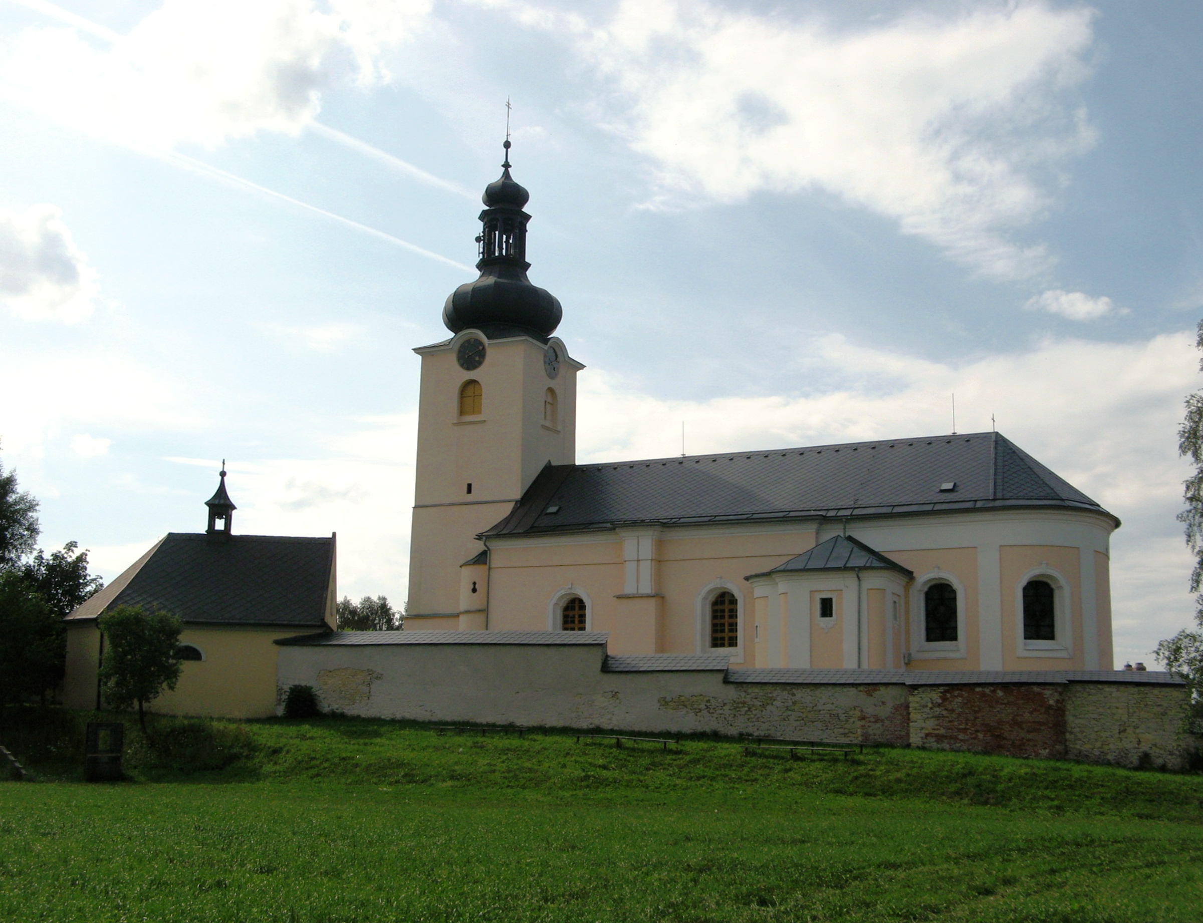 Church of Saint James the Greater and Saint Philomena, Koclířov, Czech republic